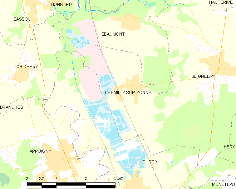 Map of French municipality Chemilly-sur-Yonne